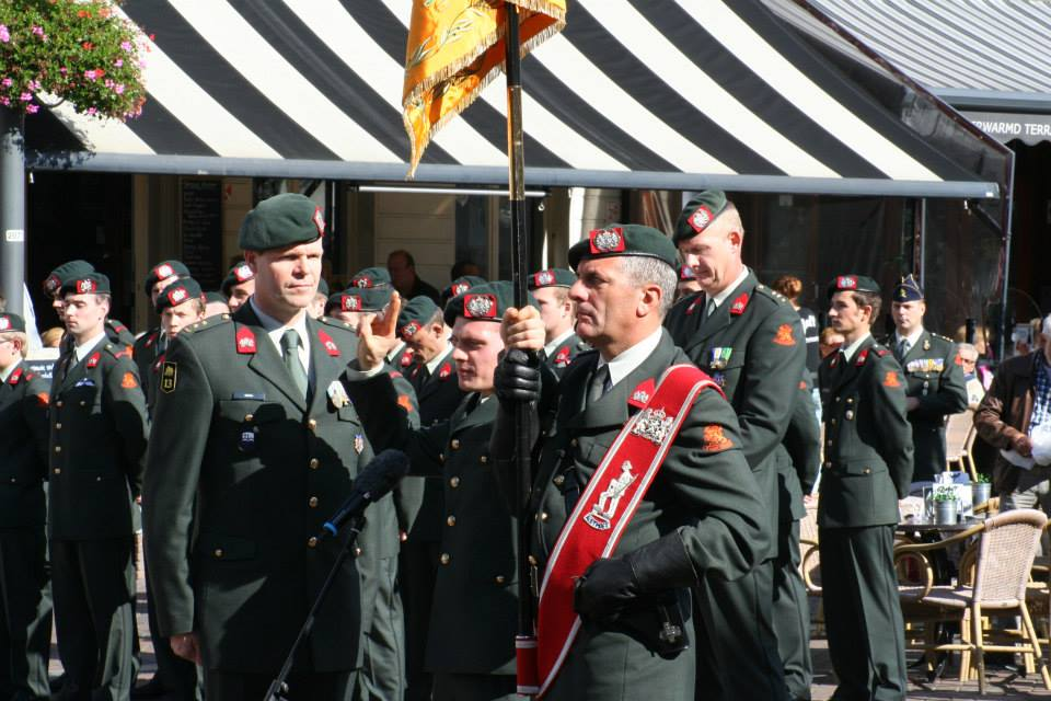 Deltacompagnie beëdiging nieuwe militairen